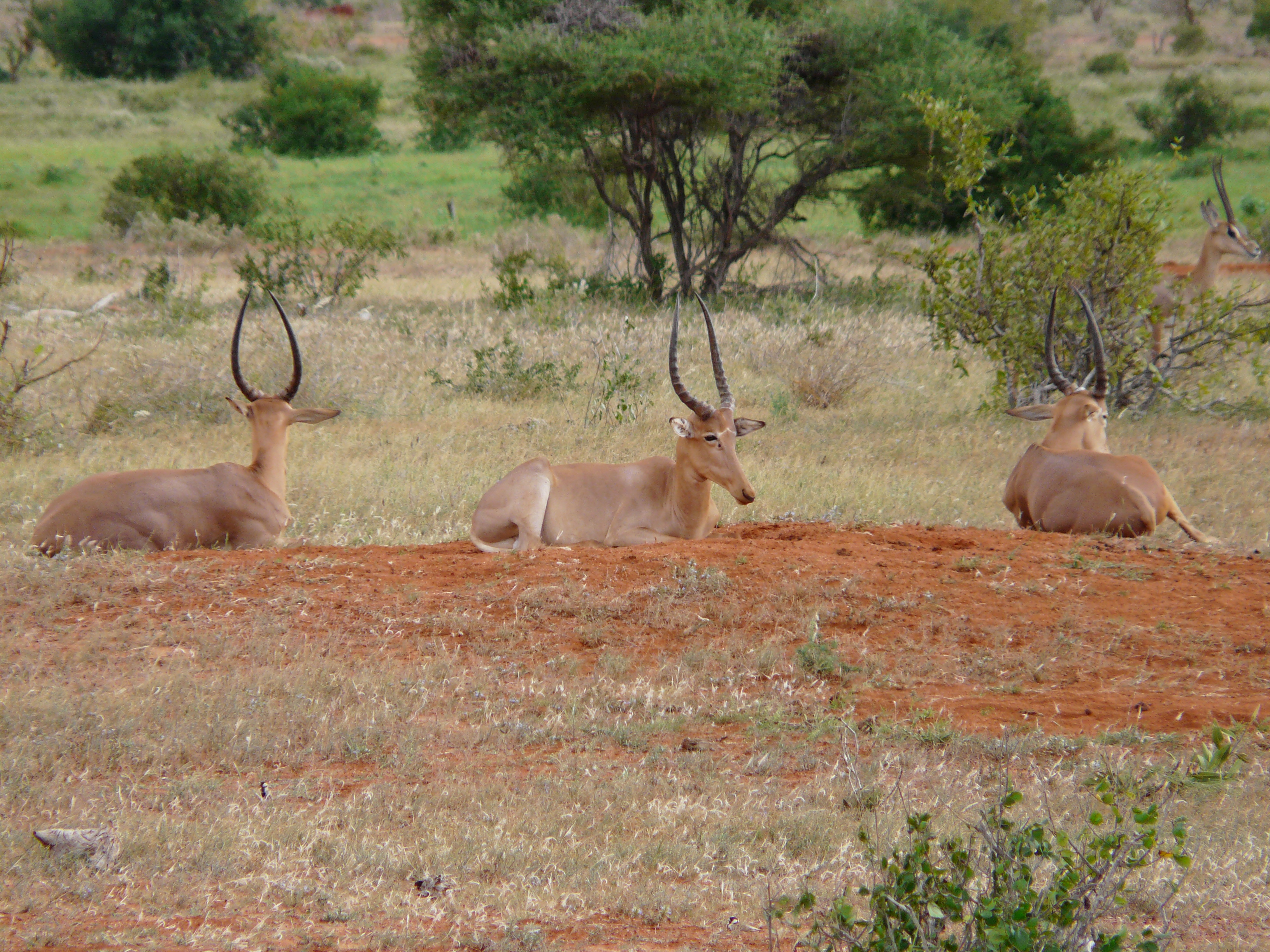 Hirola bachelor herd in Tsavo East National Park, 2011. (Copyright James Probert)